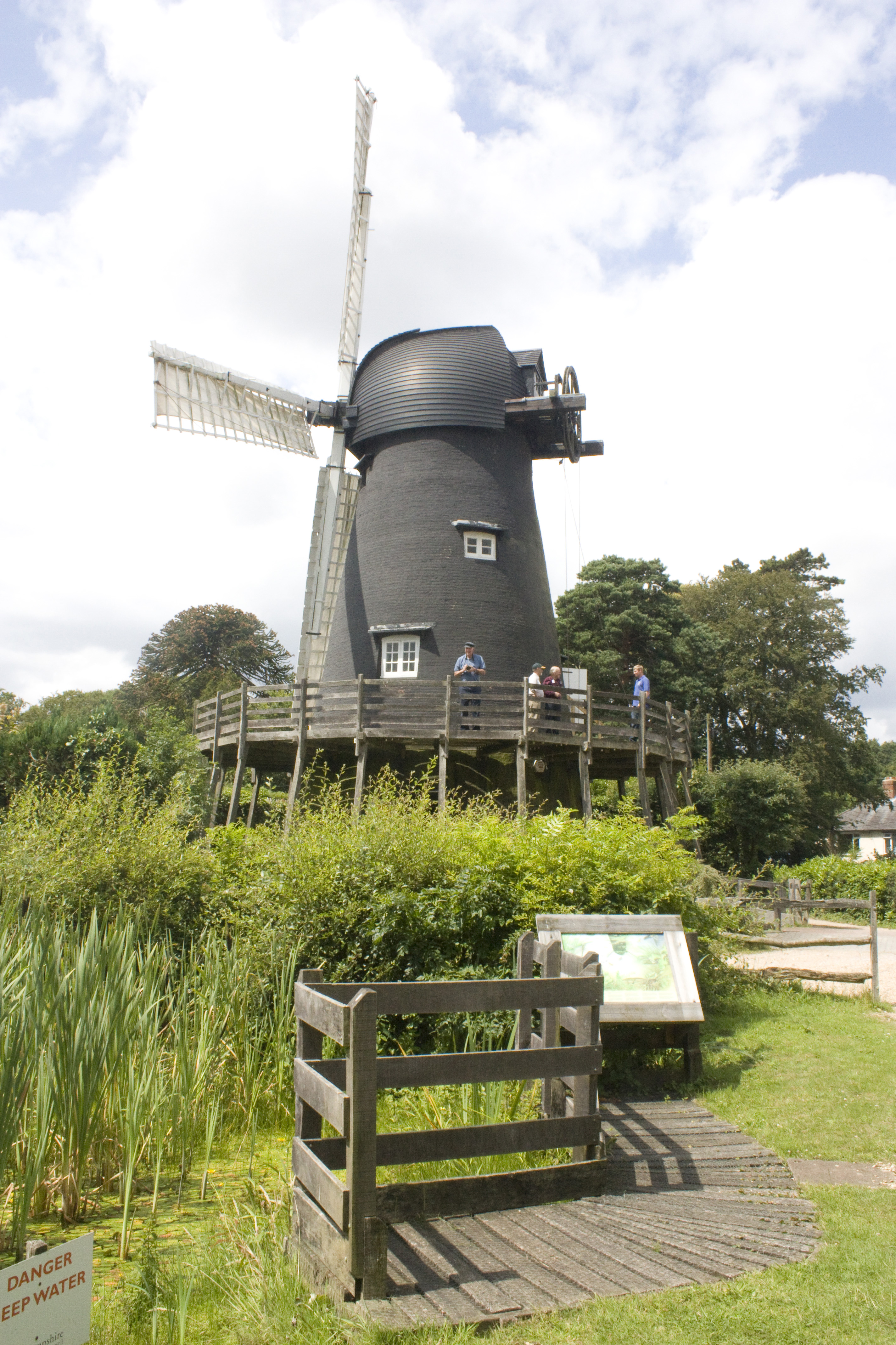 Picture of Bursledon Windmill